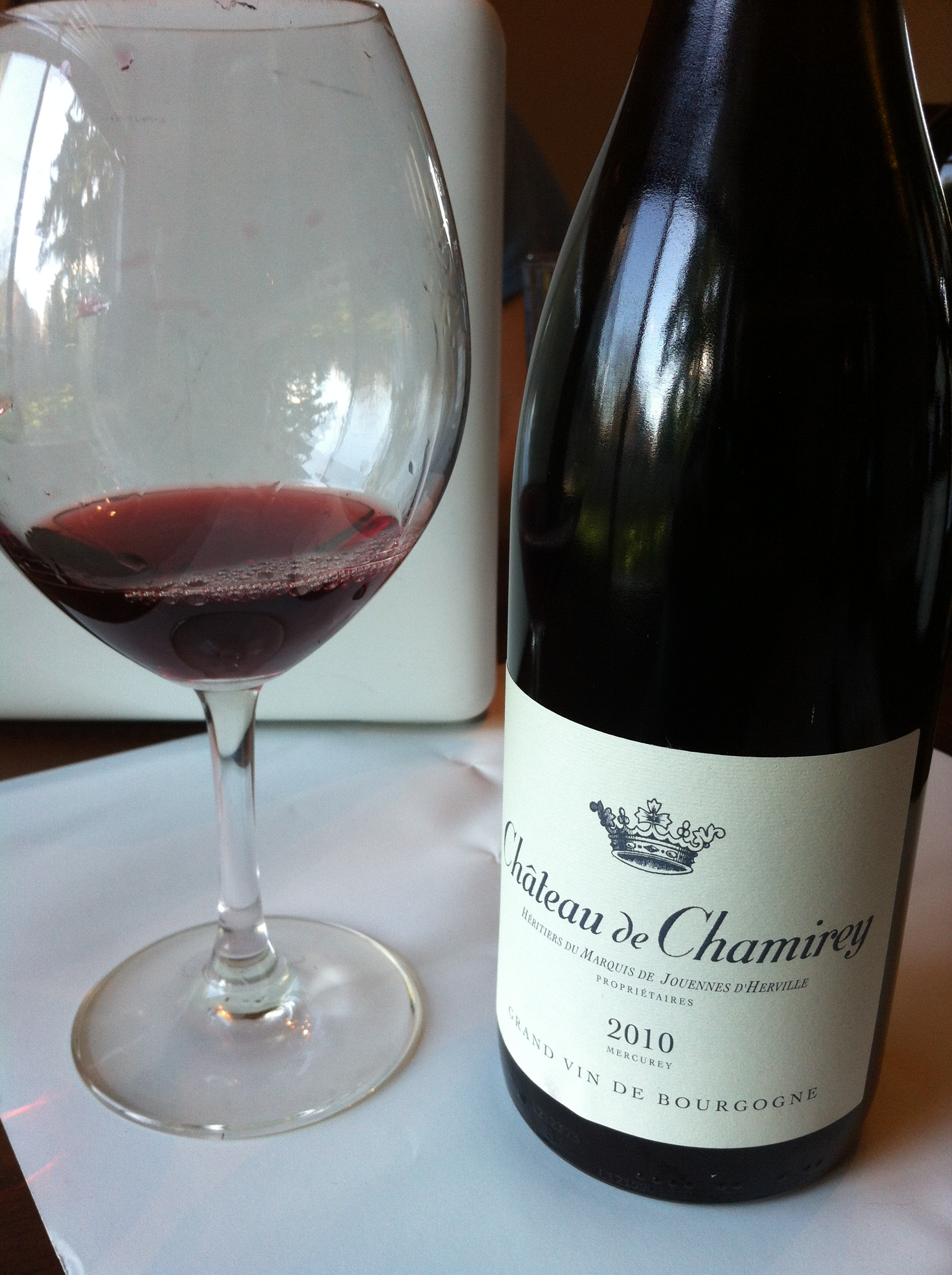 French Pinot noir from the Mecurey AOC in the Cote Chalonnaise